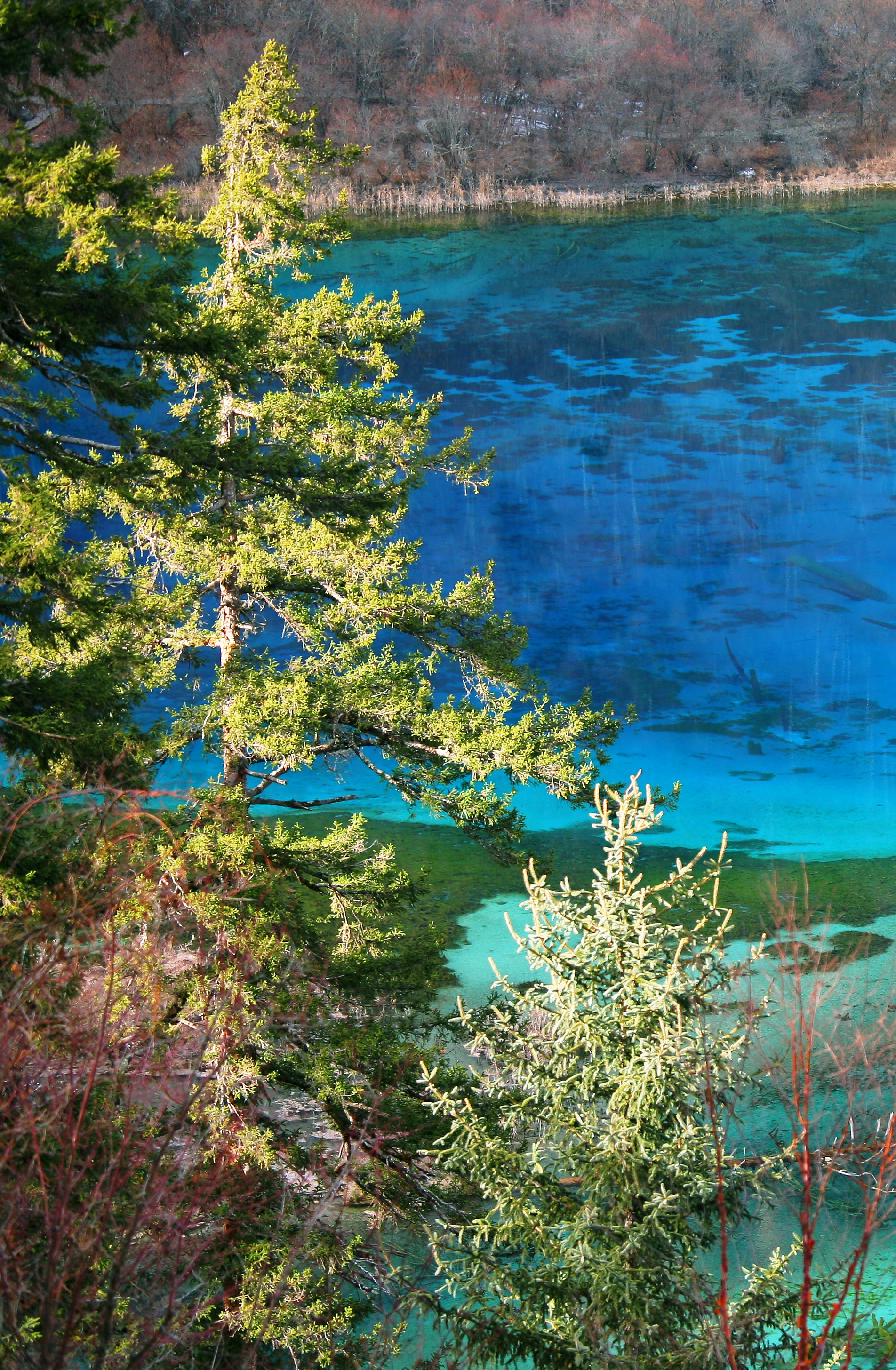 Picea wilsonii (left), Picea asperata (lower right), Jiuzhaigou Valley, Sichuan, China.